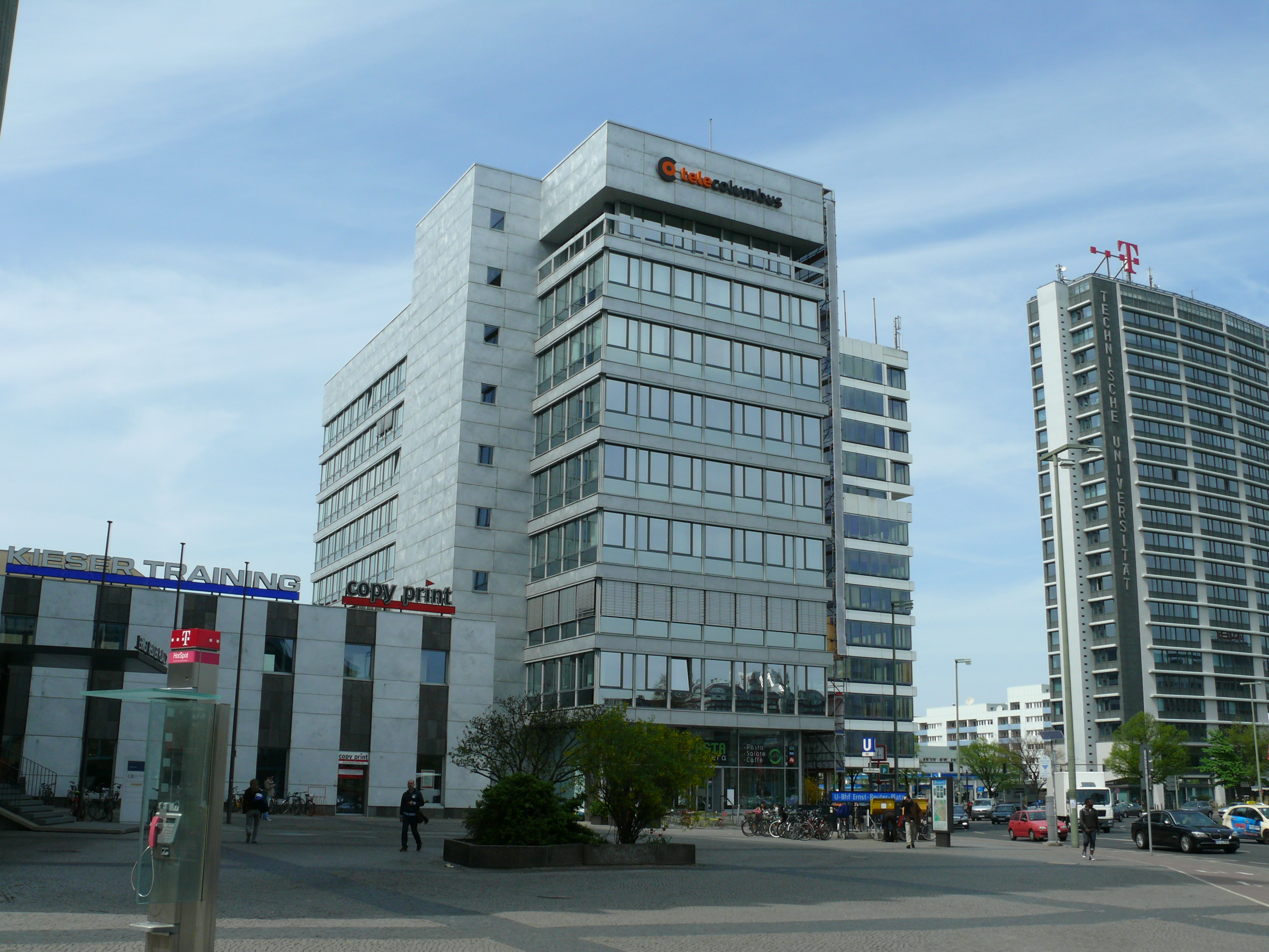 Berlin-Charlottenburg Ernst-Reuter-Platz 6